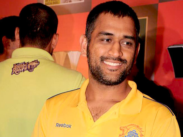 Indian cricketer Mahendra Singh Dhoni at the launch of Harsha Bhogle's book The Winning Way in 2011.